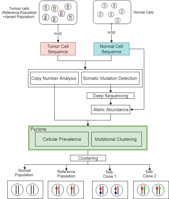 Workflow